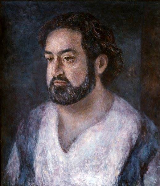 Portrait of Fernando del Valle by Ricarda Jacobi (oil painting)